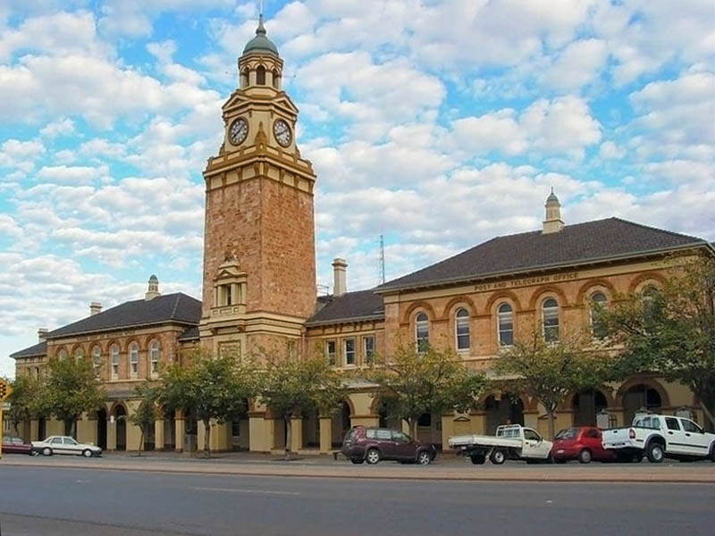 Court House, Hannan Street, Kalgoorlie, Western Australia.